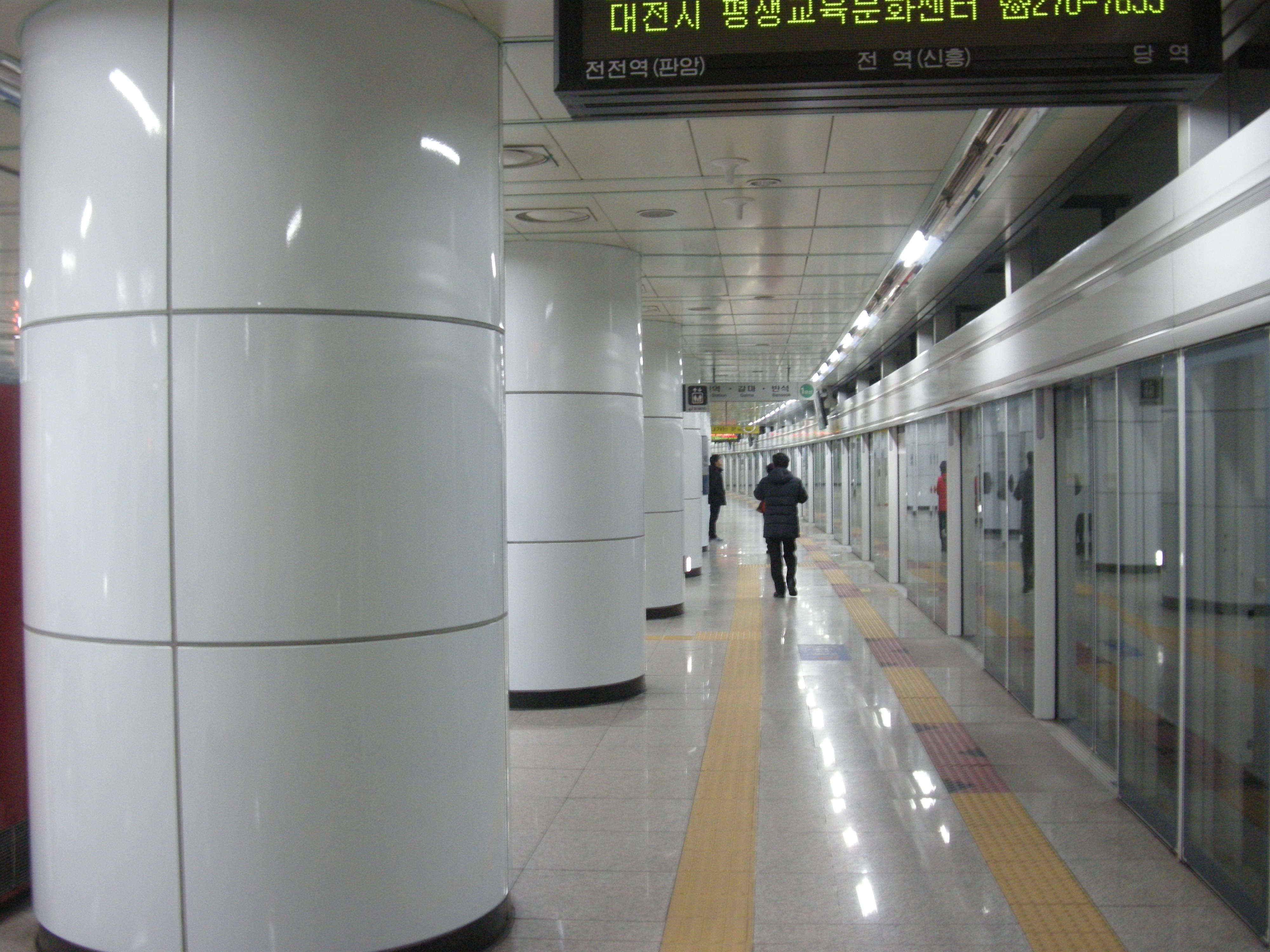 Platform (to Banseok) of Dae-dong Station, Daejeon Metro Line 1